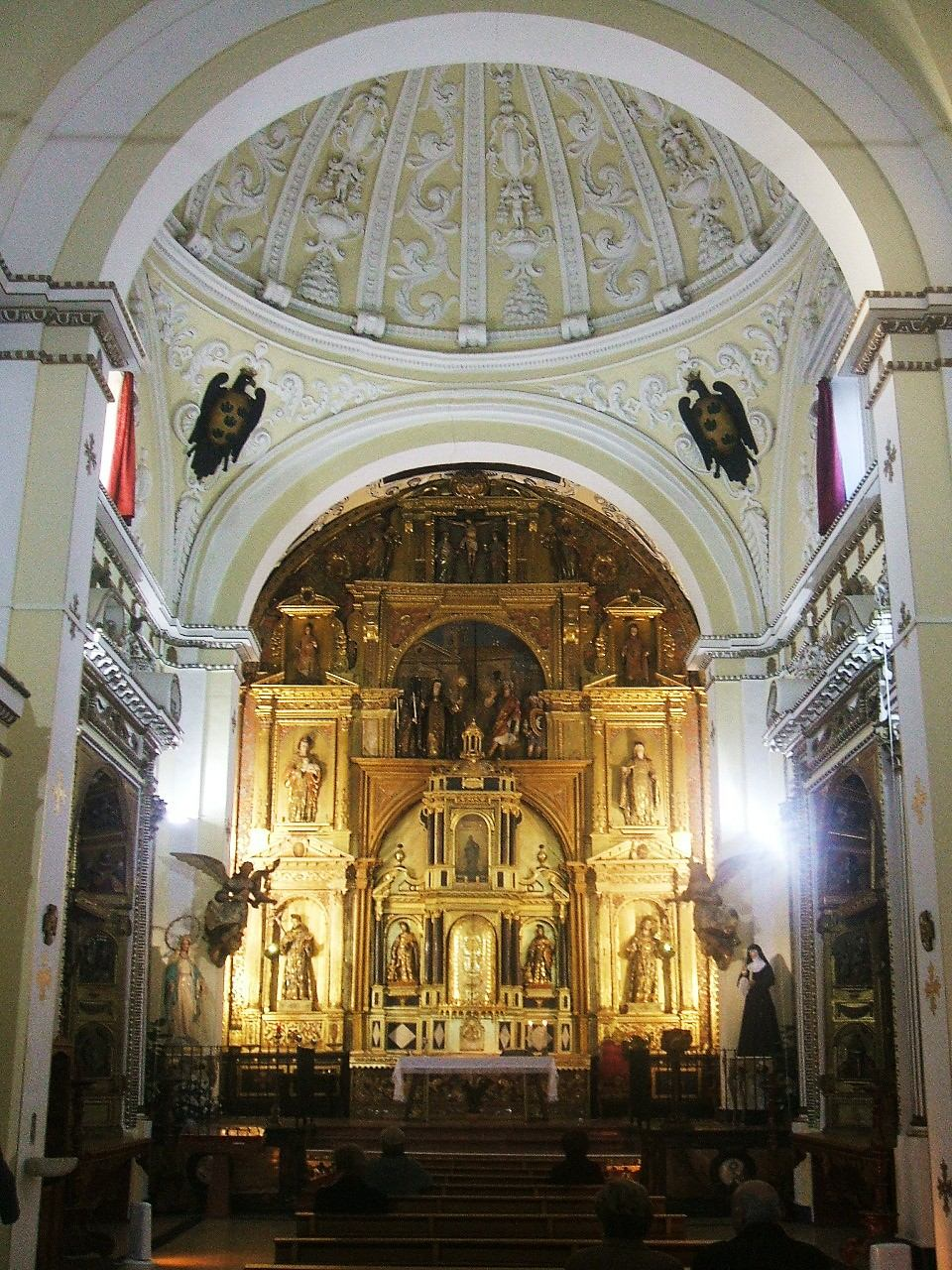 iglesia del Real Monasterio de Santa Inés del Valle, Écija, Sevilla, Andalucía, España